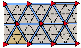 Cell diagram for wallpaper group type p3m1. Clipped version of Wallpapercellp3m1.gif.